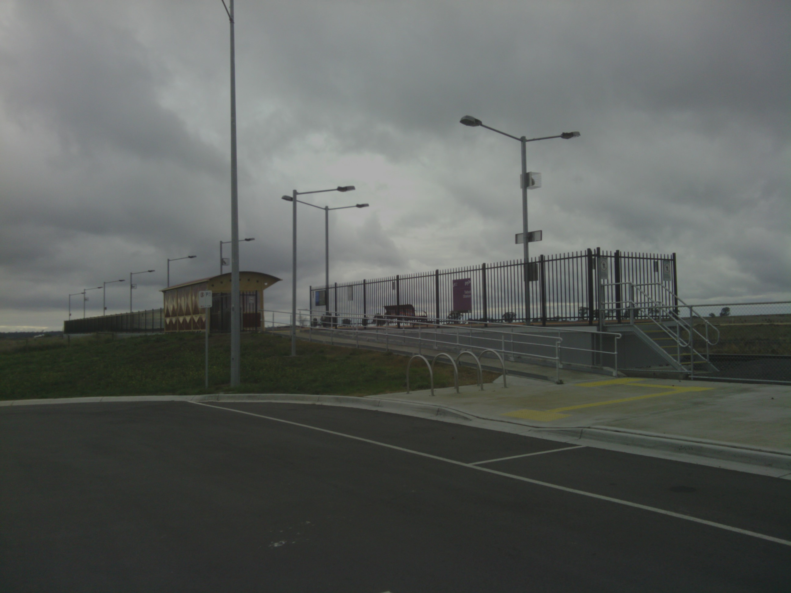 Talbot railway station.